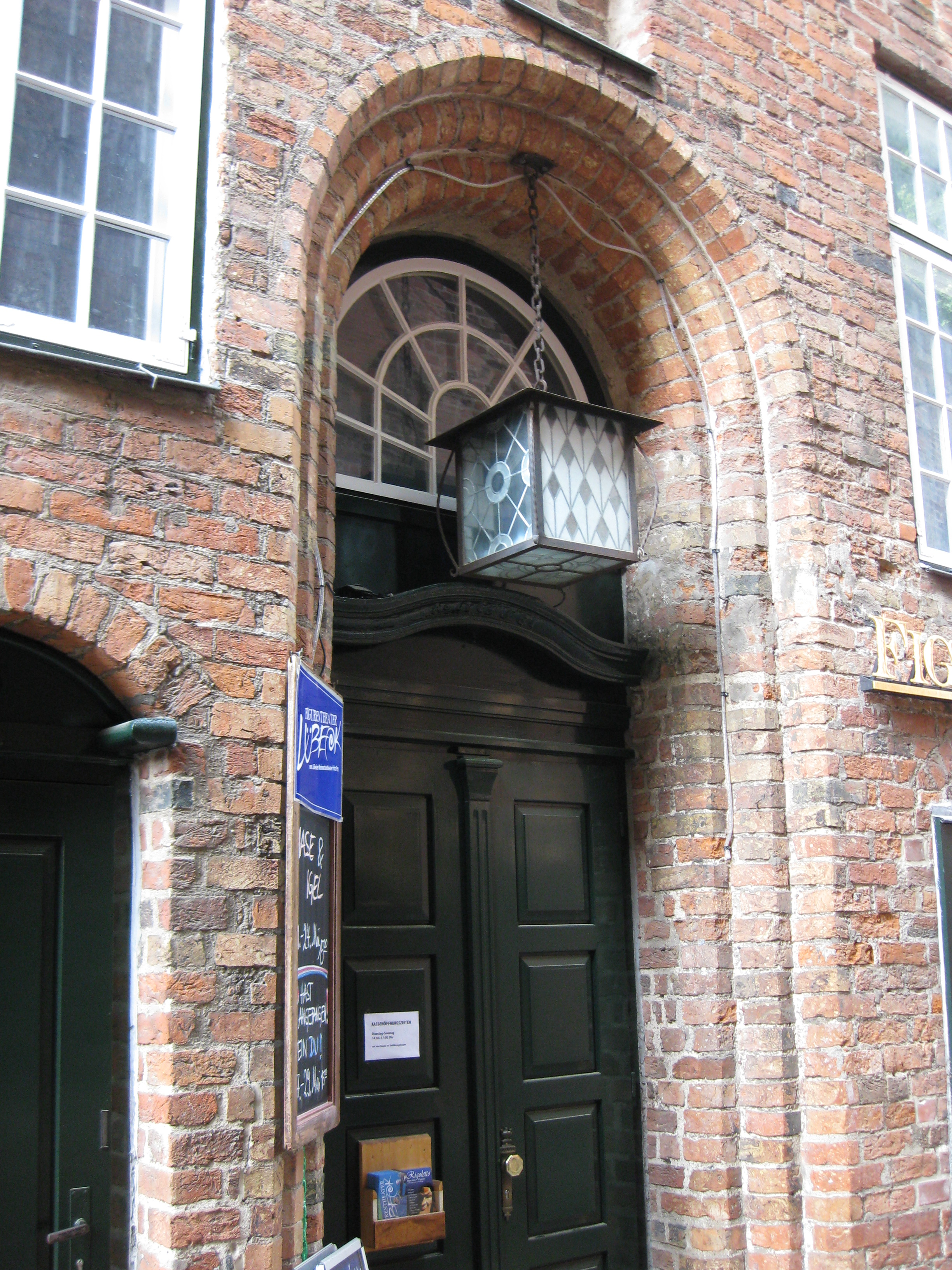 Portal of renaissance building, now used as puppet theatre and für student housing.